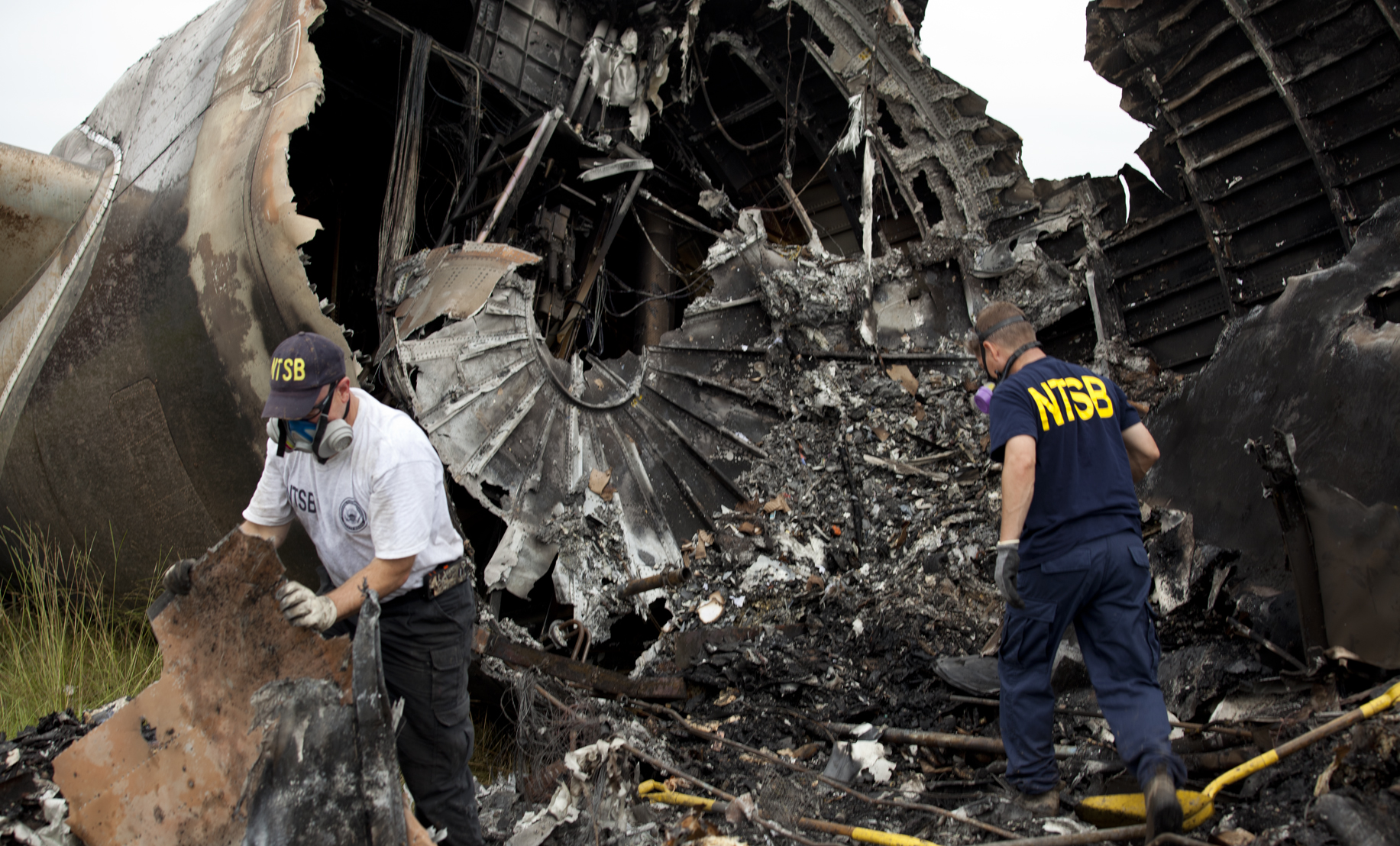 NTSB investigators Clint Crookshanks and Steve Magladry examining wreckage from UPS flight 1354.